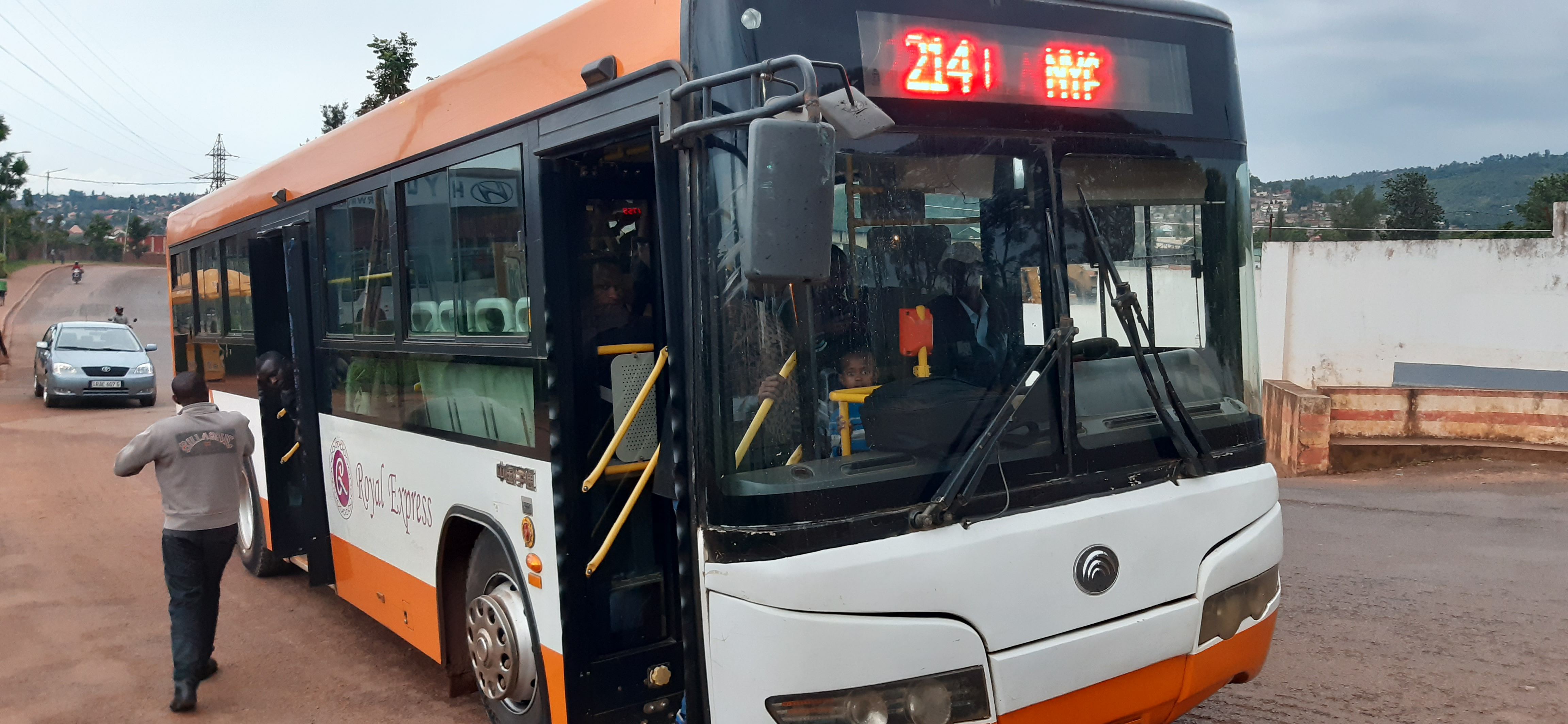 A bus stopping at a bus stage to pick a person in Kigali This is an image with the theme "Africa on the Move or Transport" from: Rwanda